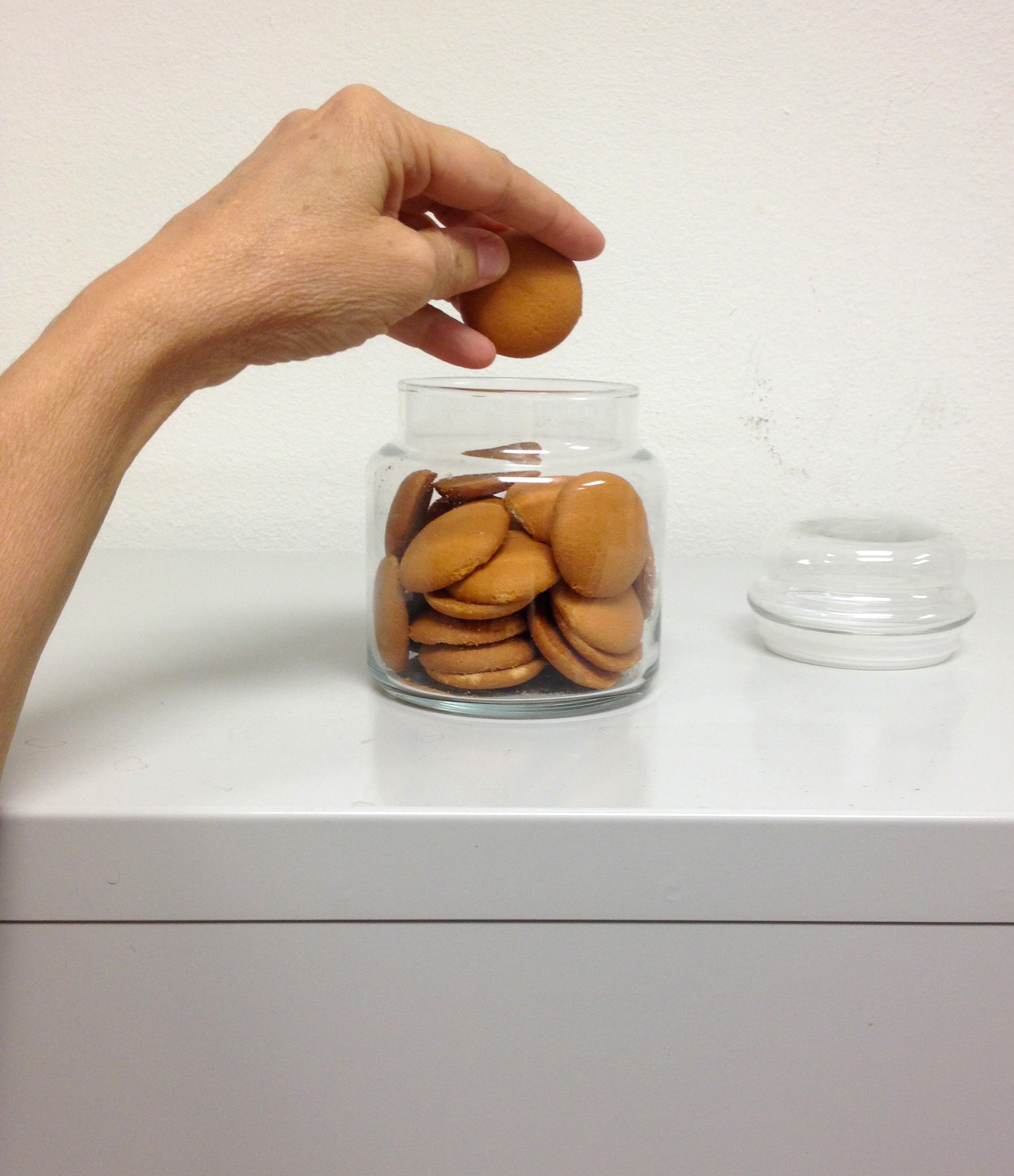 Hand getting a cookie out of a cookie jar